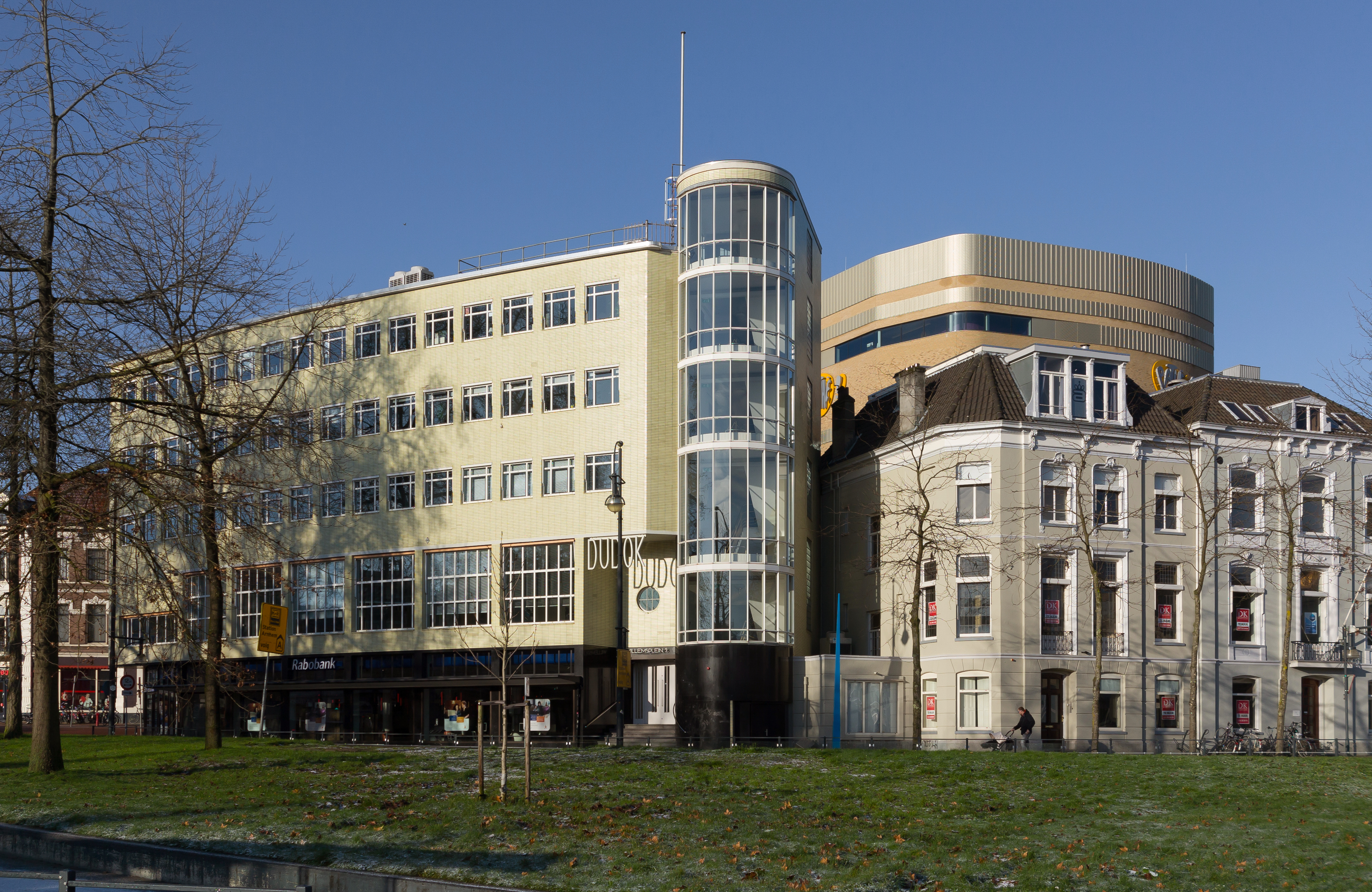 Arnhem, office building designed by Willem Dudok